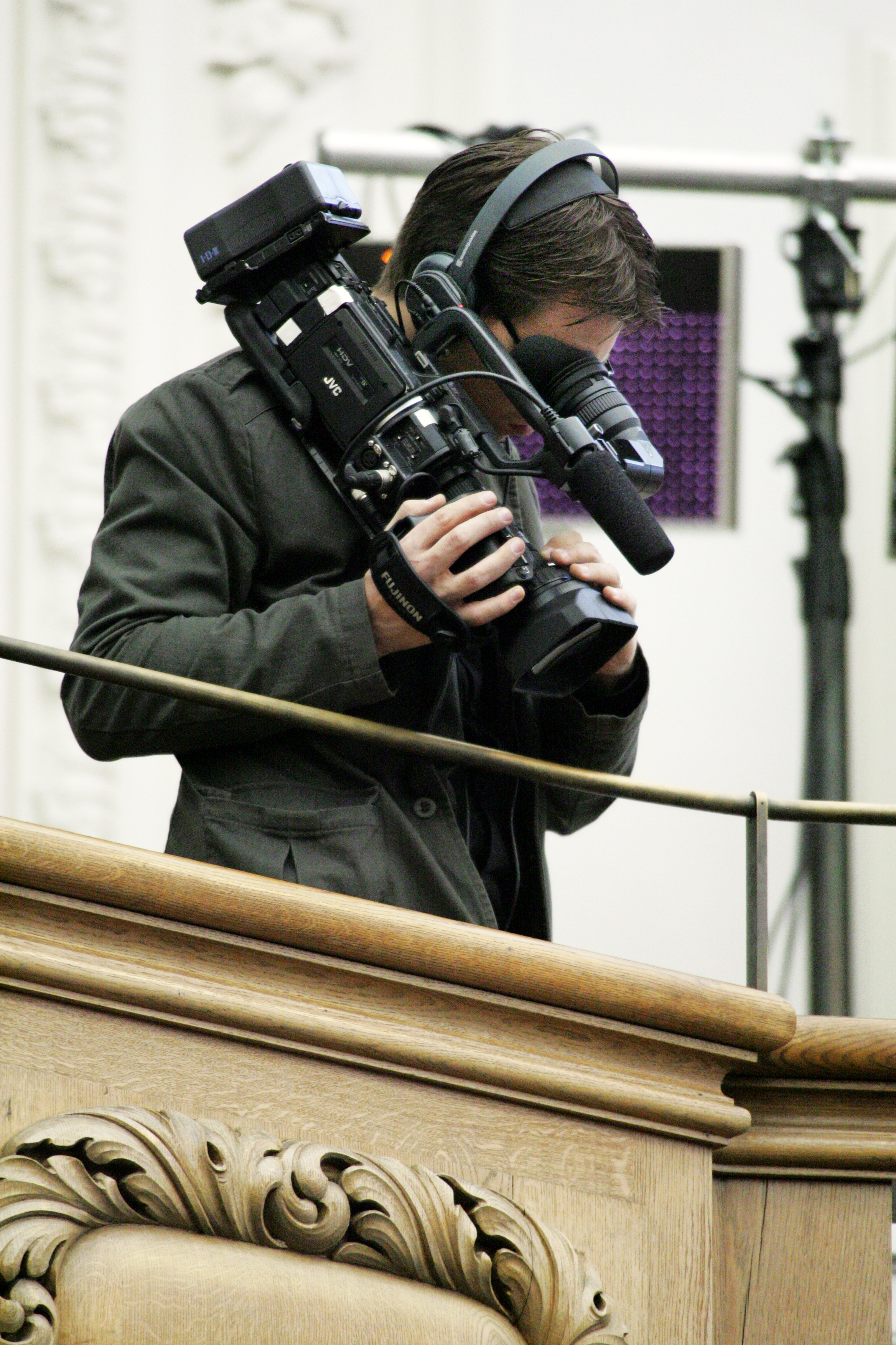 Tvfotograf bevakar Nordiska rådets session i Köpenhamn 2006. Keywords: Film and TV, Media, Denmark